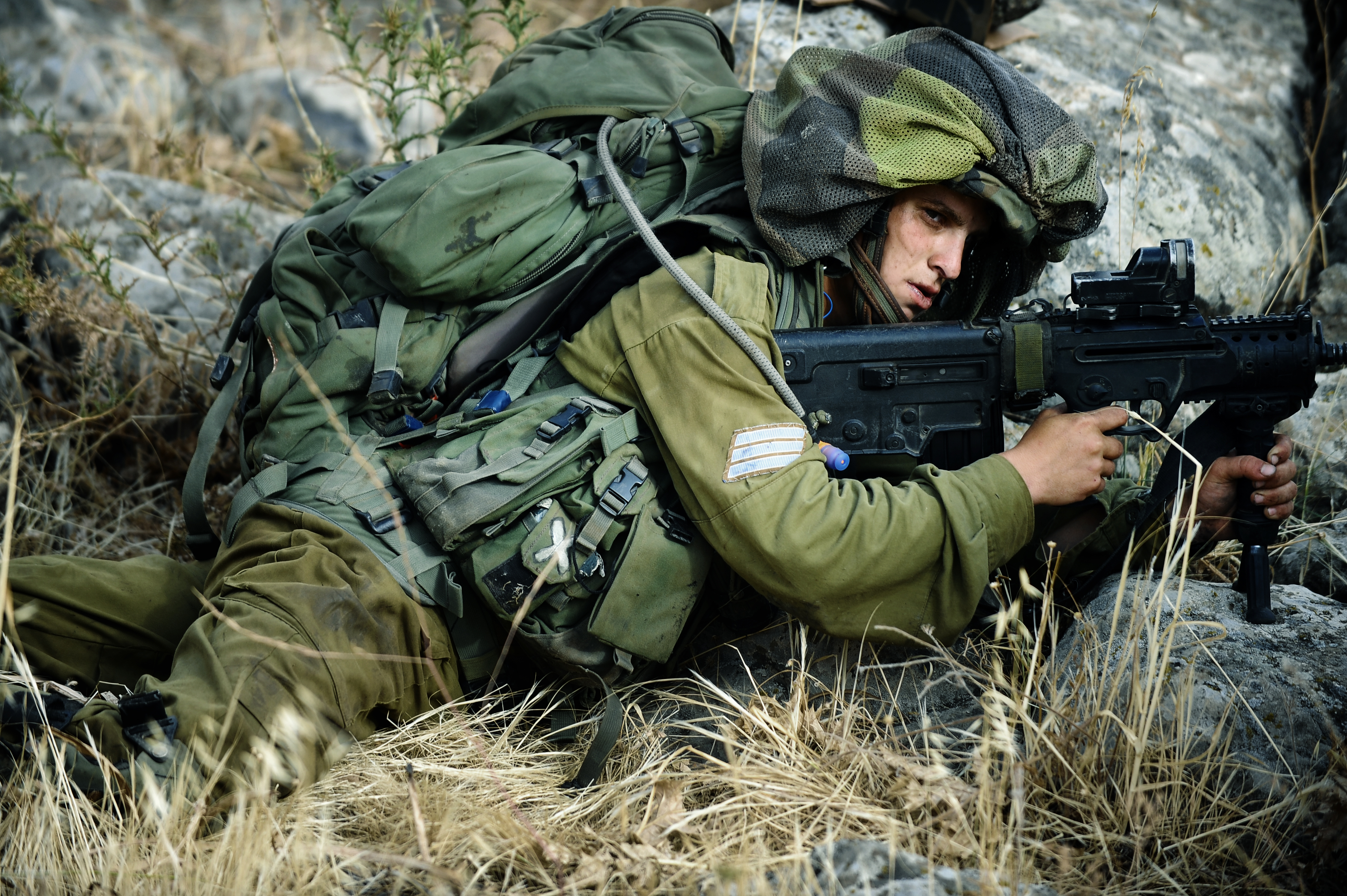 May 22, On May 22, the Nahal Brigade conducted a brigade-wide drill. The drill, also combining armored and air forces, tested the awareness and abilities of all of the brigade's soldiers. The Israel Defense Forces Facebook • blog • Twitter